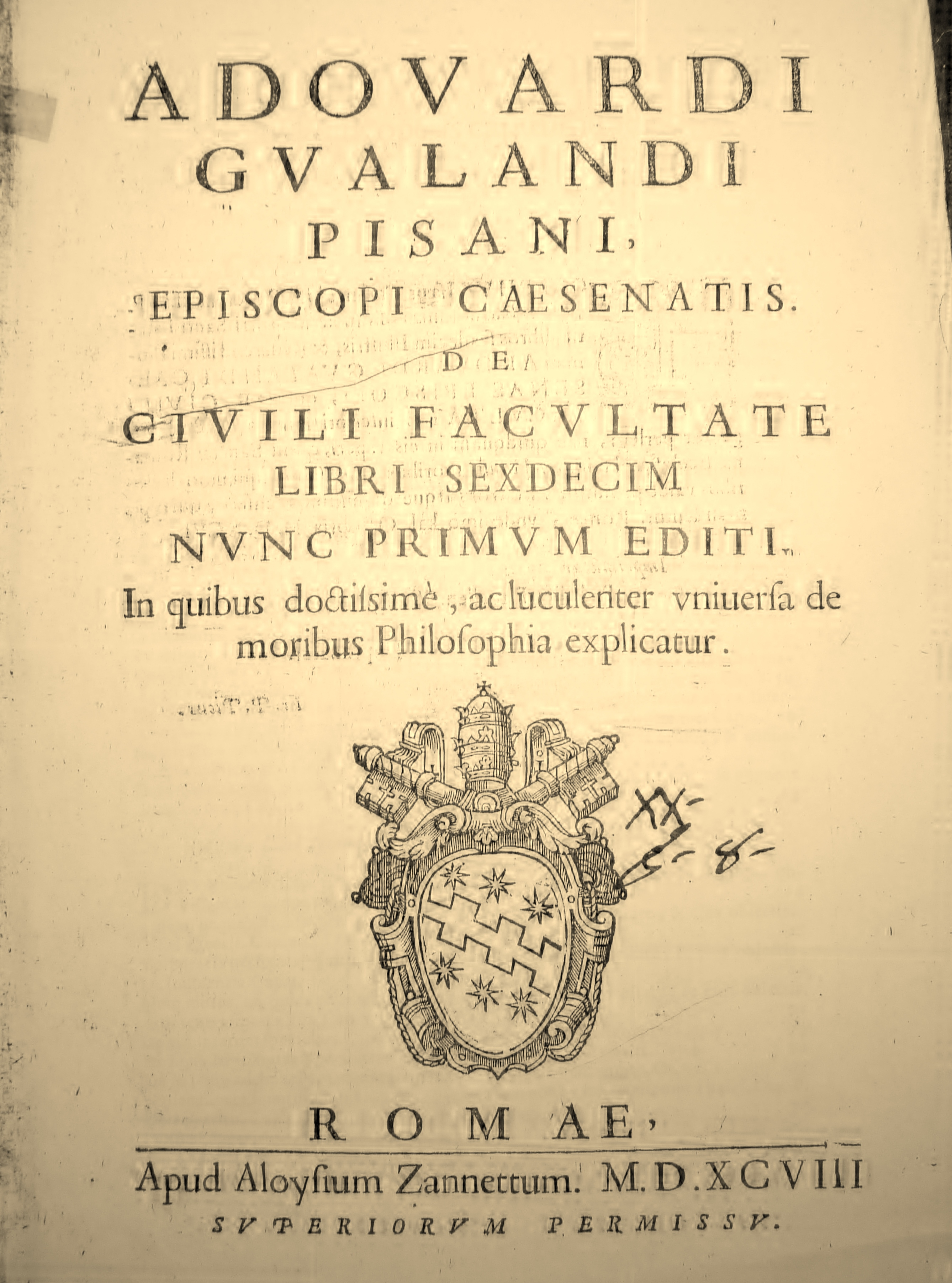 Titlepage